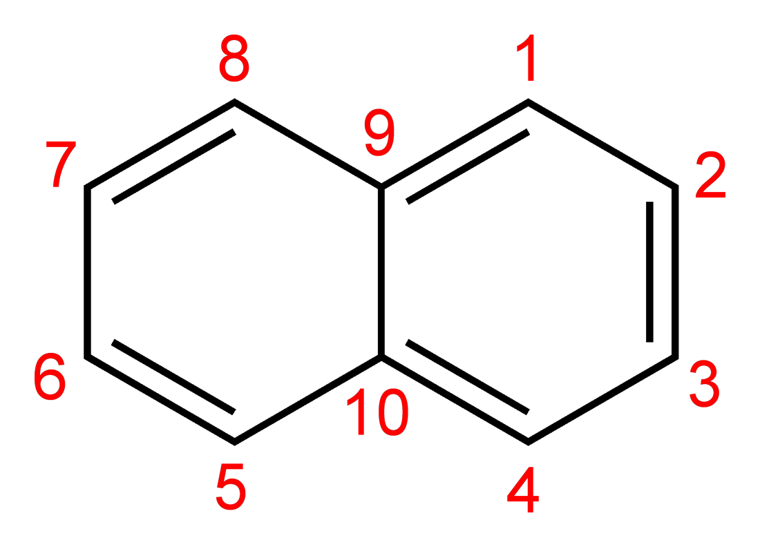 Skeletal formula of the naphthalene acid molecule, C10H8, with the numbering scheme from this paper. Note that this may not be the normal (current IUPAC, for example) numbering scheme for a naphthalene ring-system.